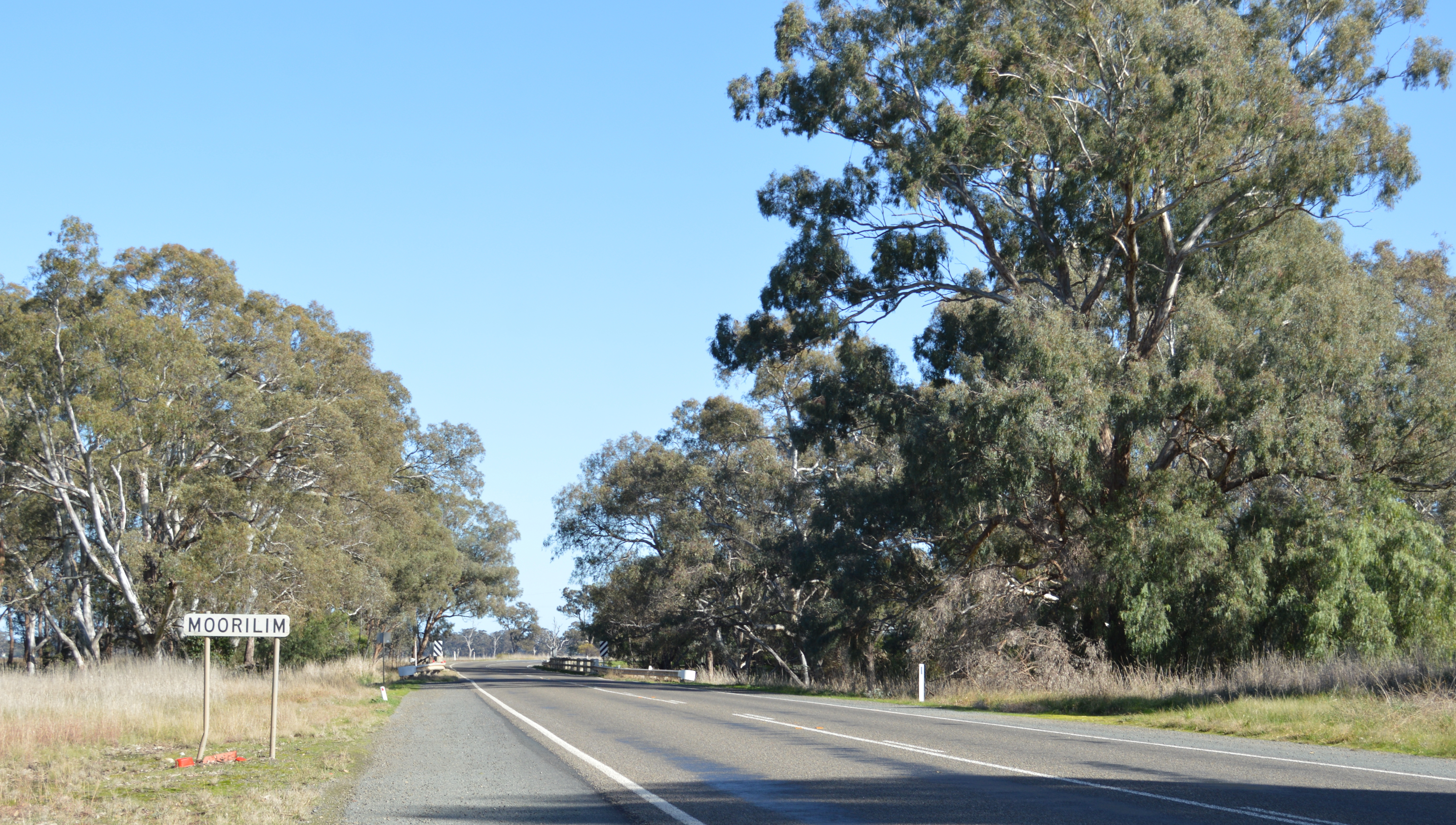 Town entry sign at Moorilim, Victoria